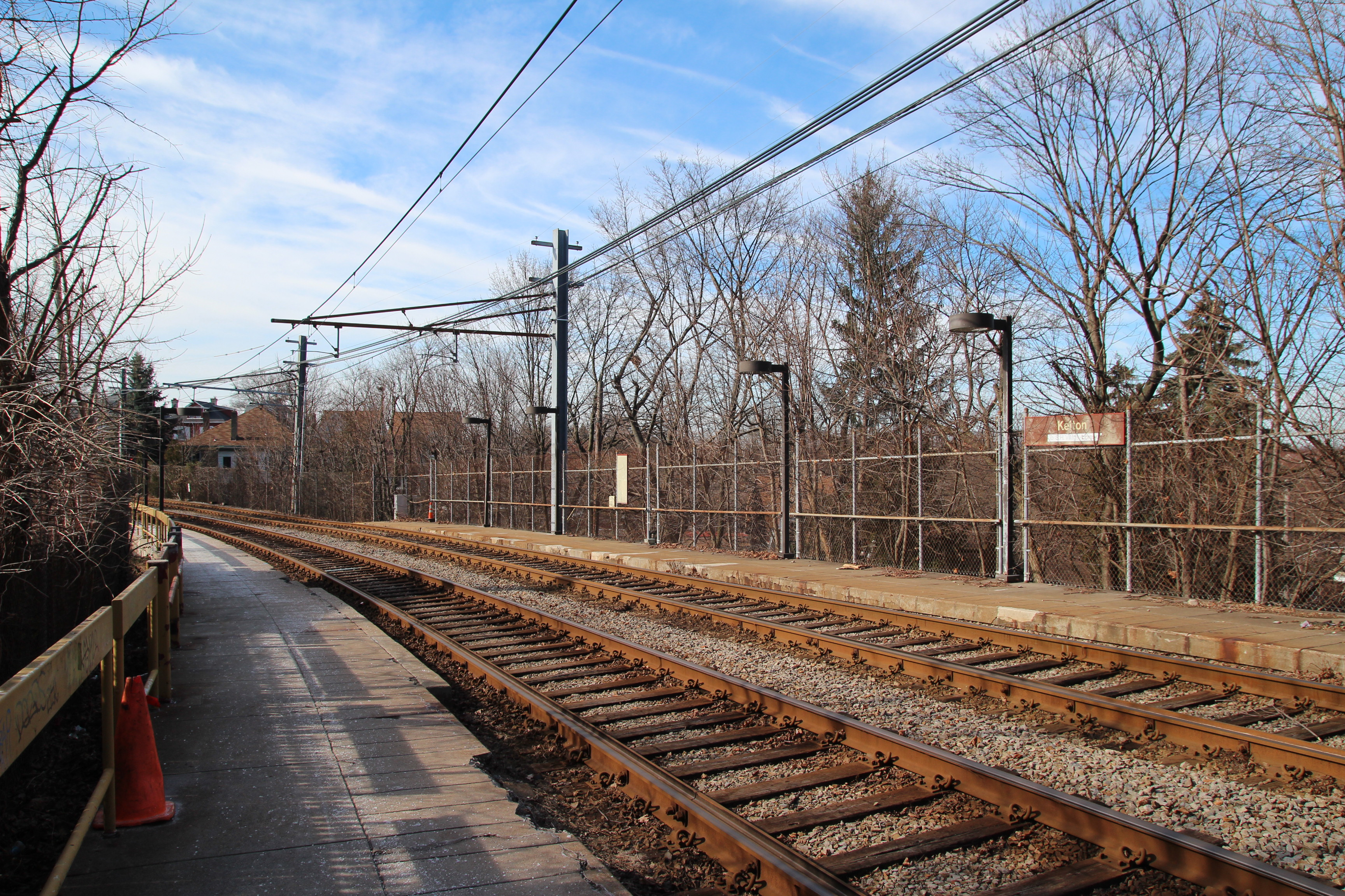 The Kelton station on the Red Line, closed in 2012, as seen in 2017. Almost everything is intact.